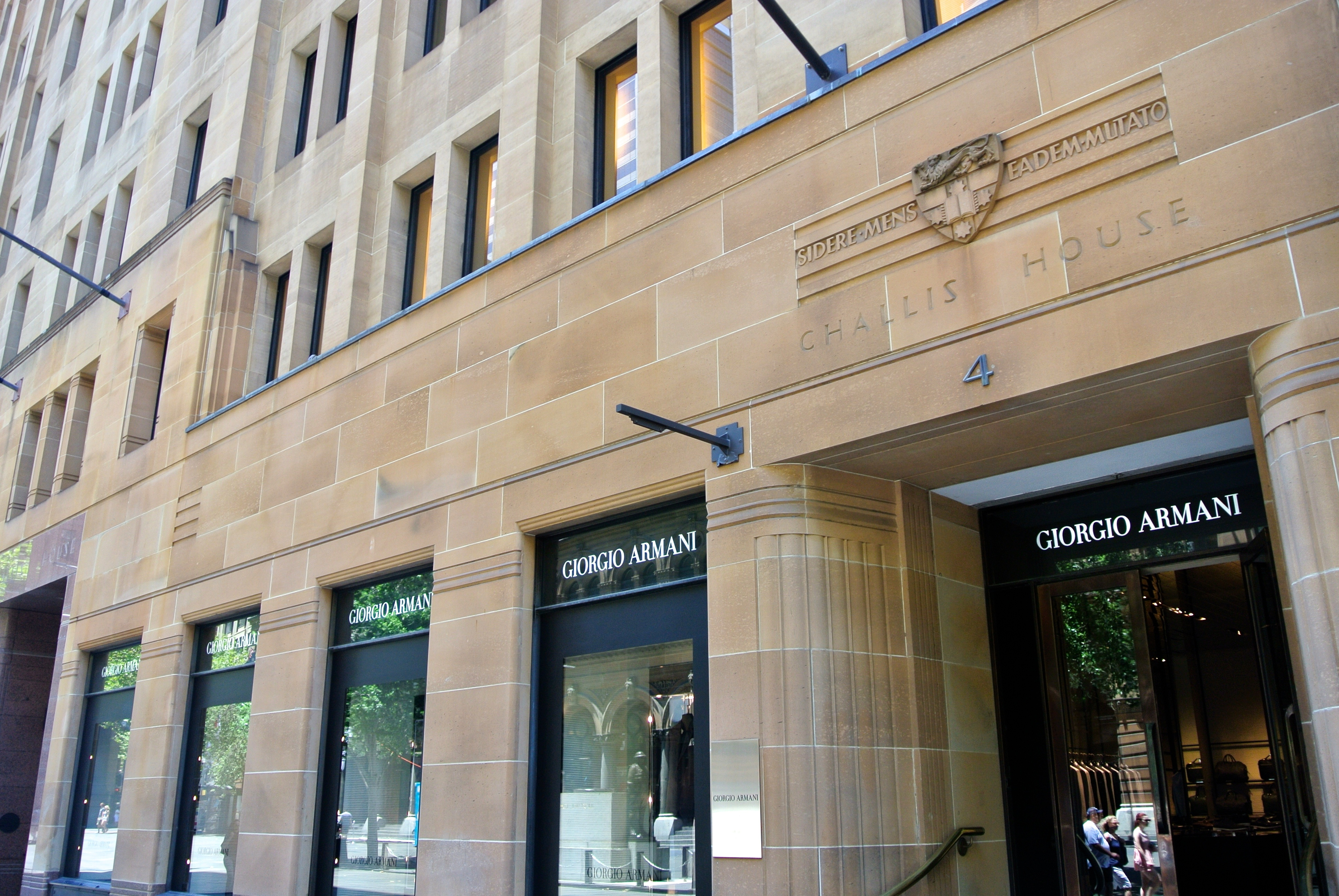 Challis House (No. 4 Martin Place) stands on land bought in 1906 for £500 per square foot by the University of Sydney from University endowment funds. The building was designed by W. L. Vernon, Government Architect and Robertson and Marks, Architects, and completed in 1907. The building was named Challis House after John Henry Challis, who in 1880 had bequeathed his estate valued at £276,000 (equivalent value of over $30.5 million in 2012) to the University. This art deco building is adorned with the University of Sydney's Coat of Arms and accompanying motto above its doors, and forms one of the most important parts of the University's property portfolio.